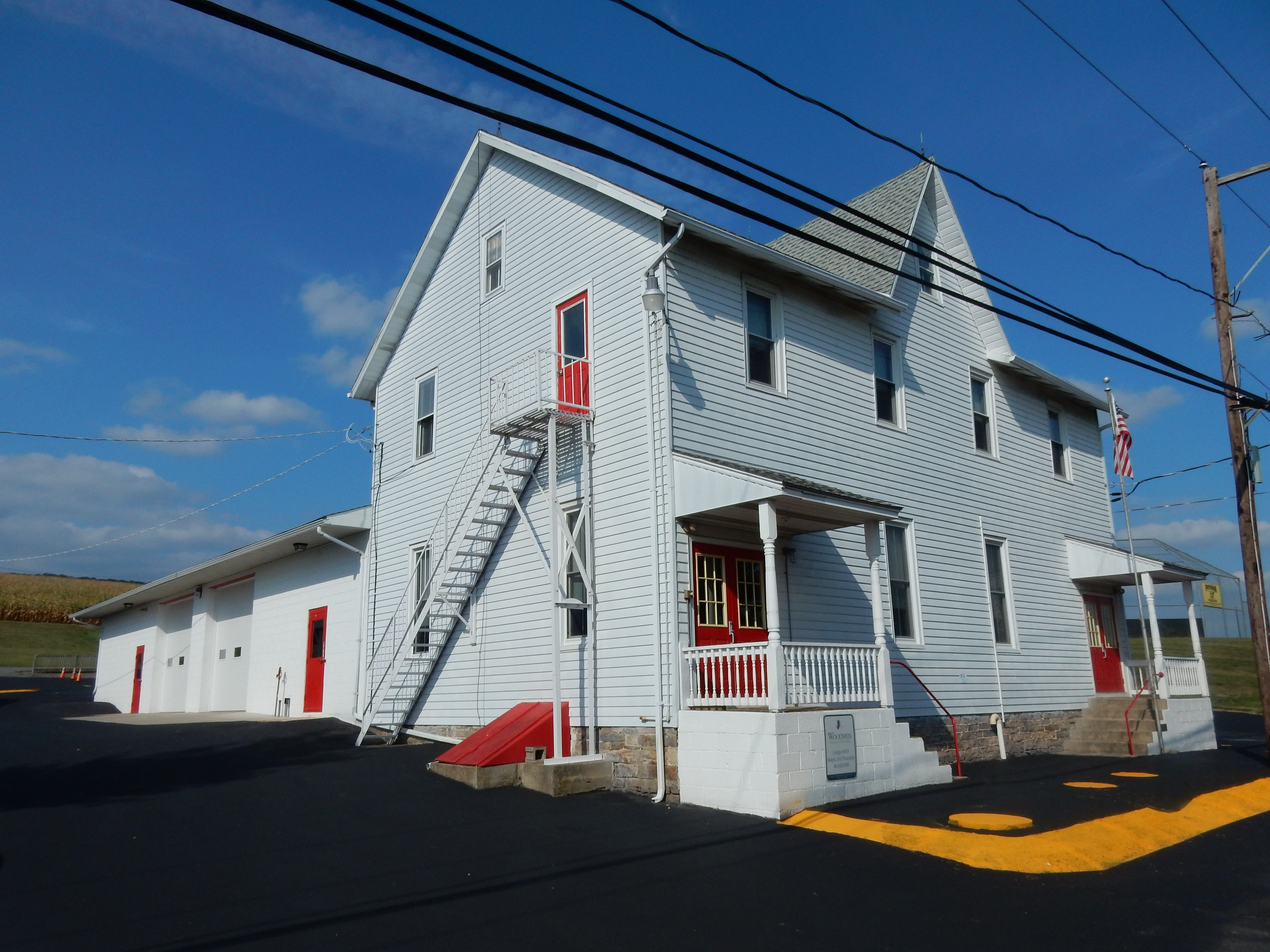 Mahantongo Fire Co, Main Rd., Pitman, Eldred Township, Schuylkill County, Pennsylvania.